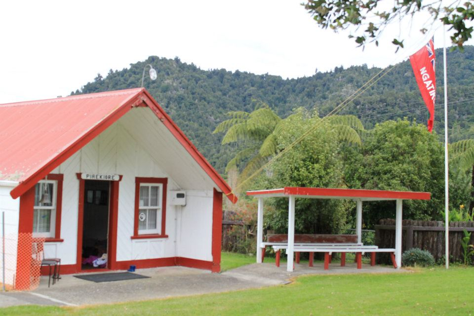 Marae of the Ngati Kurawhatia. Whare-Tupuna (Meeting House) is called Pirekiore and the Whare-Kai (Dining Room) is called Te Kupenga.